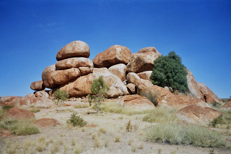 One of the boulder formations at the Devil's Marbles site.